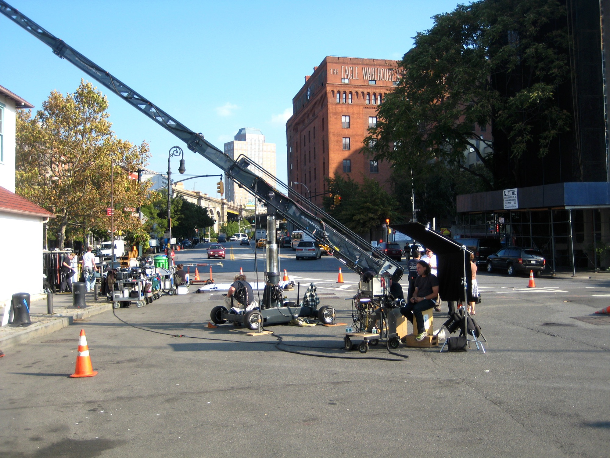 A film crew in Brooklyn filming CSI New York.